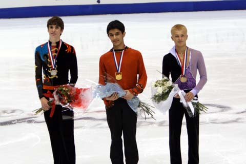 The men's podium at the 2007 Junior Grand Prix event in Lake Placid, New York, USA. From left: Austin Kanallakan (2nd), Armin Mahbanoozadeh (1st), Artem Grigoriev (3rd).